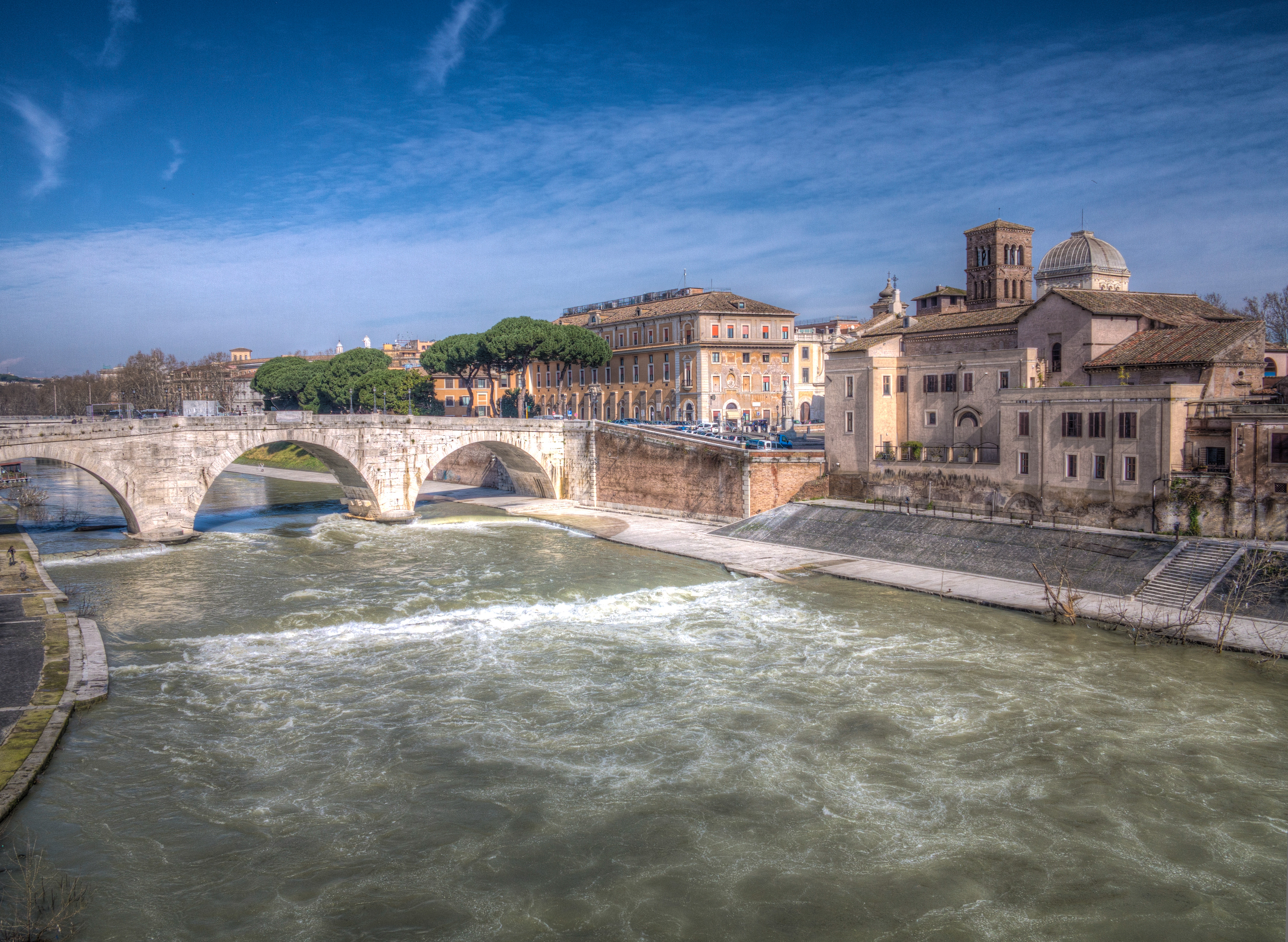 Isola Tiberina near Trastevere in Rione XIII / Trastevere in Rome / Italy / EU. View to the north, in the background upstream the Ponte Cestio.